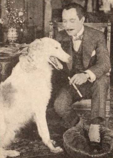 Still from the American mystery film 813 (1920) with Wedgwood Nowell and his Russian wolf hound, on page 66 of the November 27, 1920 Exhibitors Herald.